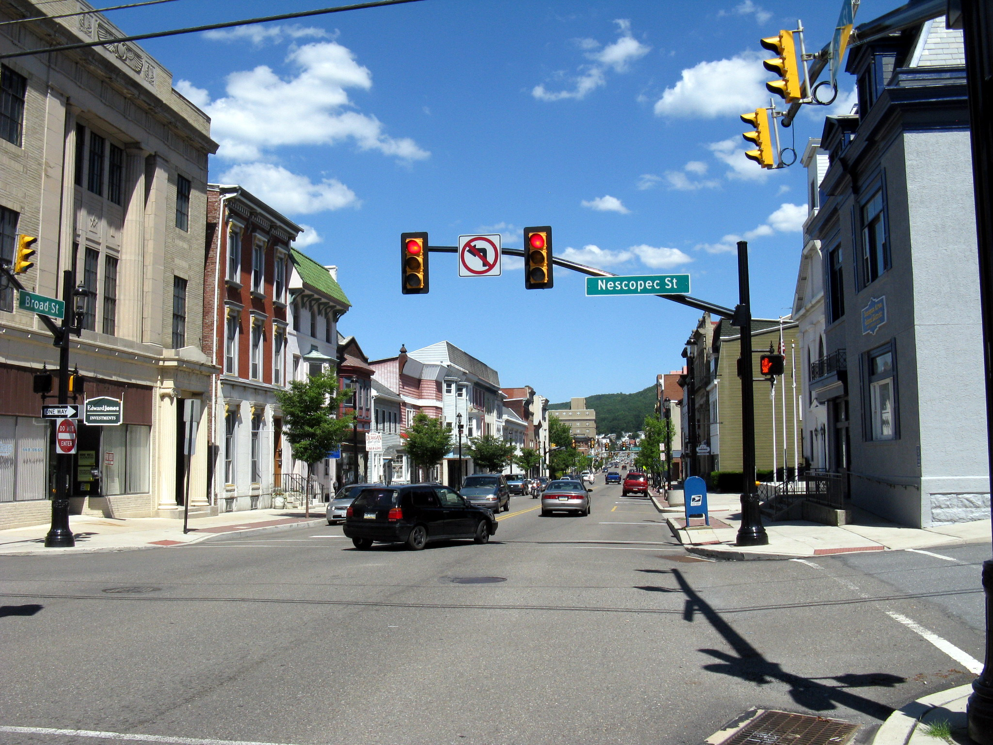 A view of downtown Tamaqua, PA looking Northeast down Broad Street. This entire area is encompassed by the Tamaqua Historic District, listed on the National Register of Historic Places in February 2001.